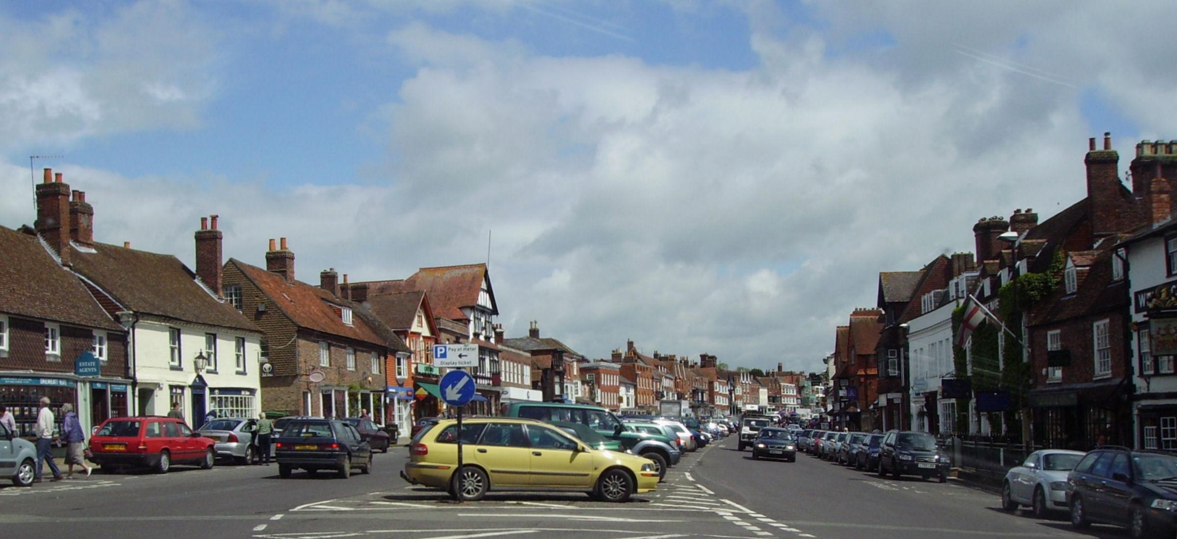 Marlborough High Street